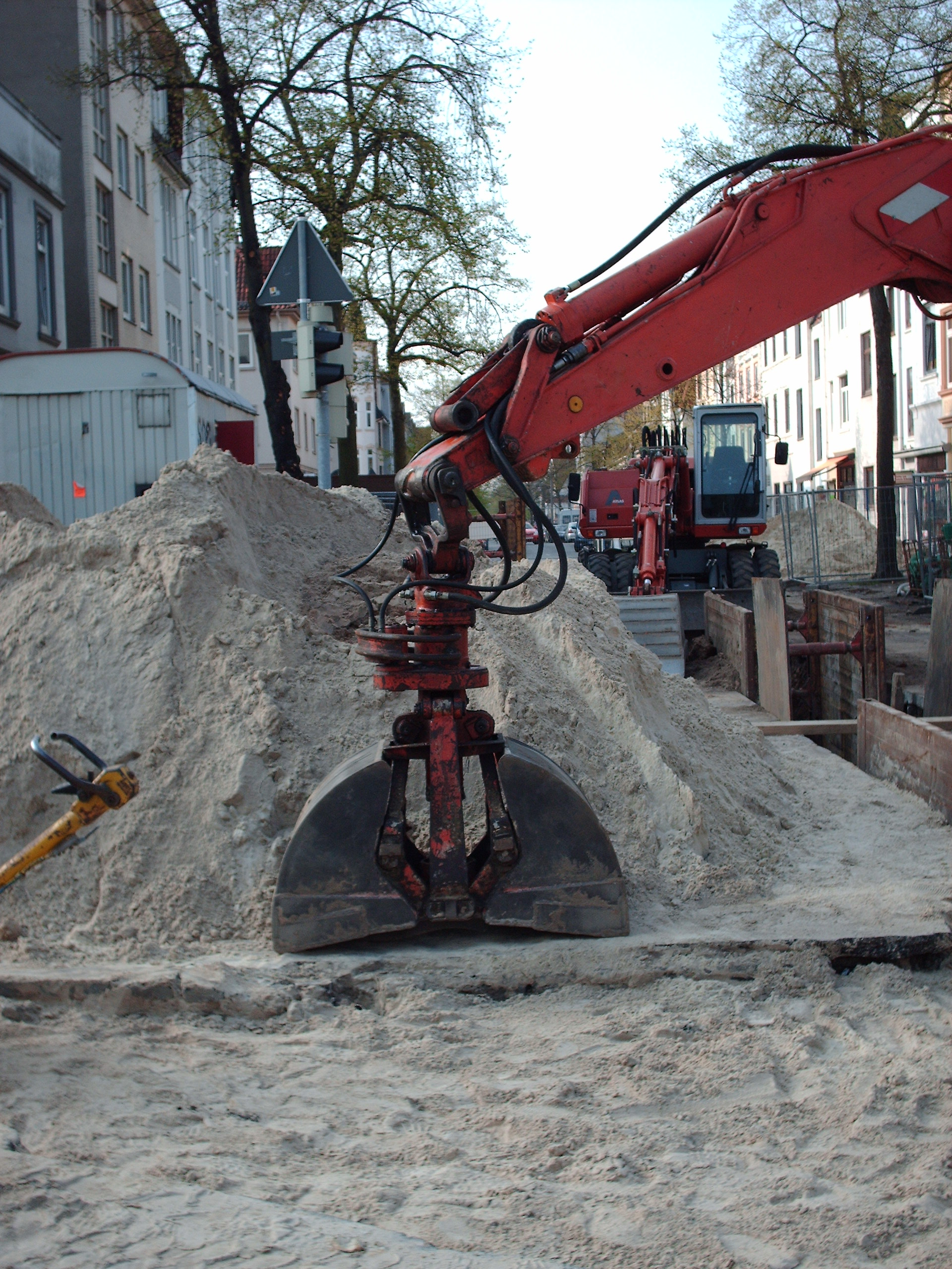 Two ATLAS wheeled hydraulic excavators on a German construction site. A trench is being excavated with protective trench shielding. Foreground: a clamshell bucket.